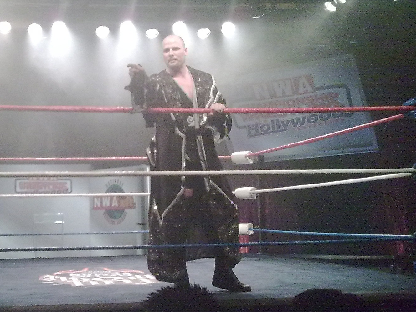 Professional wrestler Adam Pearce in the ring before a match at an NWA Championship Wrestling from Hollywood show on November 15, 2008.